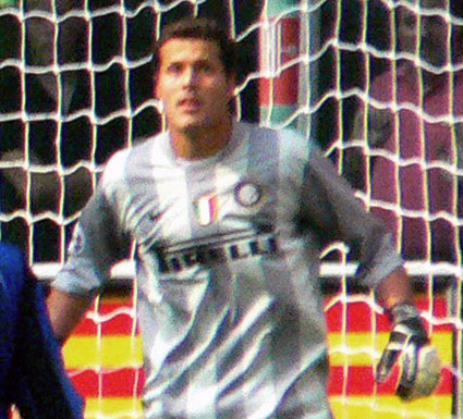 Júlio César